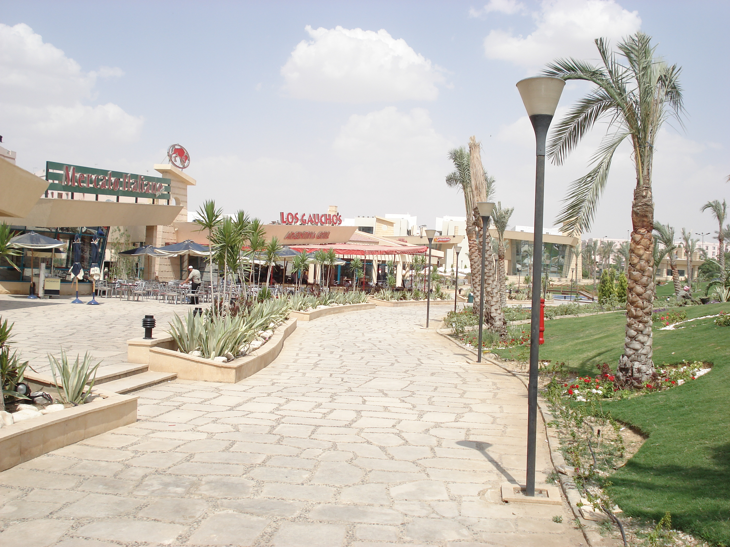 The foodcourt in Al-Rehab City.